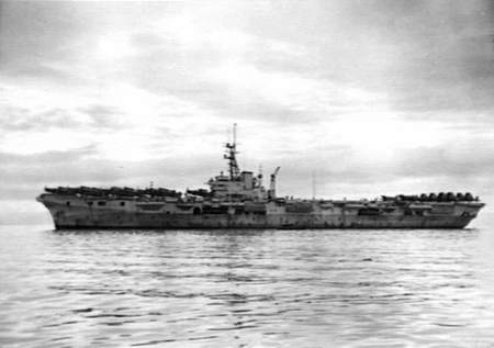 The Royal Navy aircraft carrier HMS Vengeance (R71) at Labuan Island, Borneo, on 1 January 1946. Vengeance embarked the Australian Army 9th Division and transported it back to Australia.